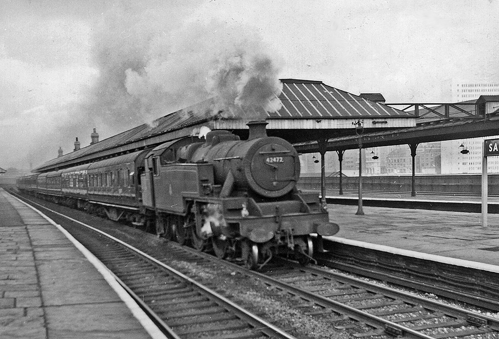 A Down local train passing Salford Station. View eastward, towards Manchester Victoria; Lancashire & Yorkshire main line. The Class B train (running on the Down Fast) is hardly a 'local', as it is the 17.40 Victoria to Hellifield, via Bolton, Blackburn and Clitheroe, headed by Stanier 4P 2-6-4T No. 42472.